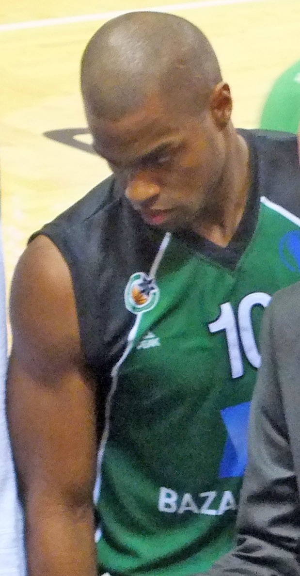 Player for the Greens in the 2013/14 season.